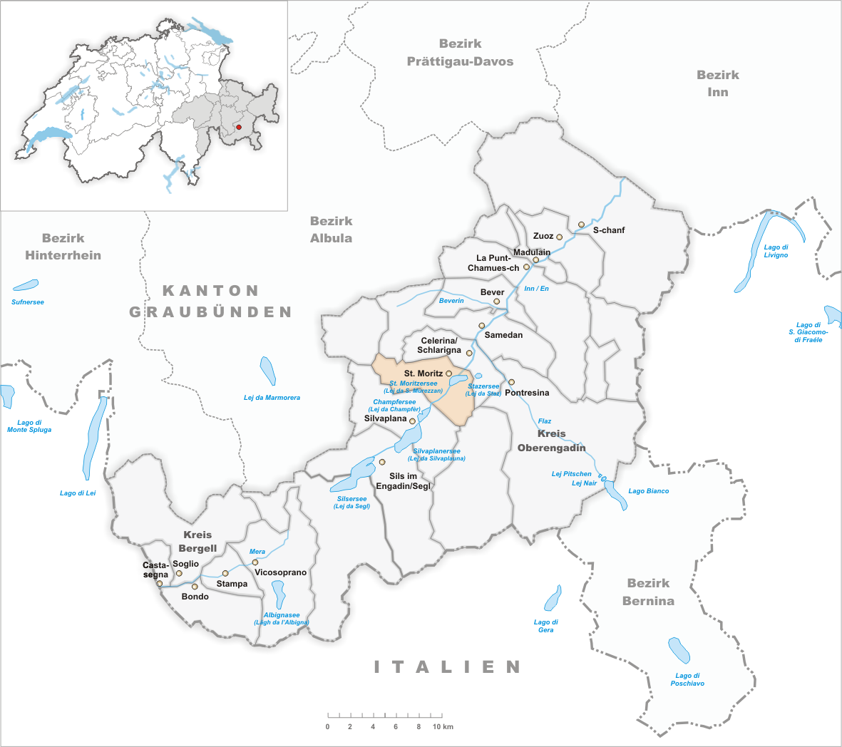 Municipality St. Moritz